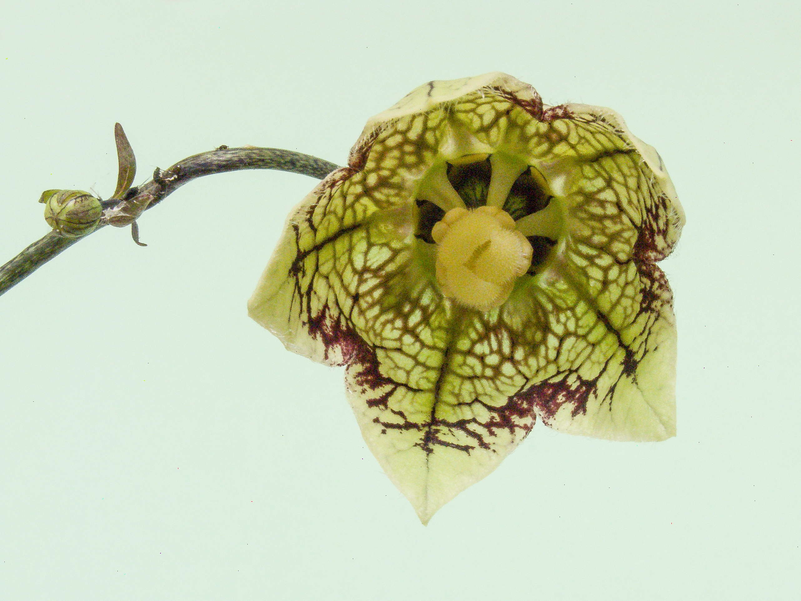 Flower of Codonopsis subscaposa; "studio shot" of a plant in cultivation